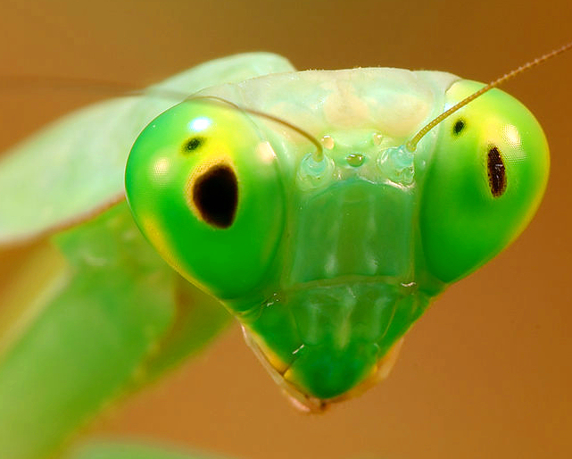 Rhombodera basalis